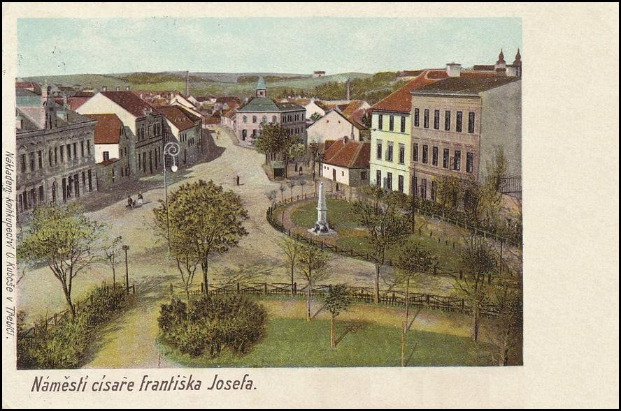 View of Masarykovo square in 1905 in Třebíč, Třebíč District.